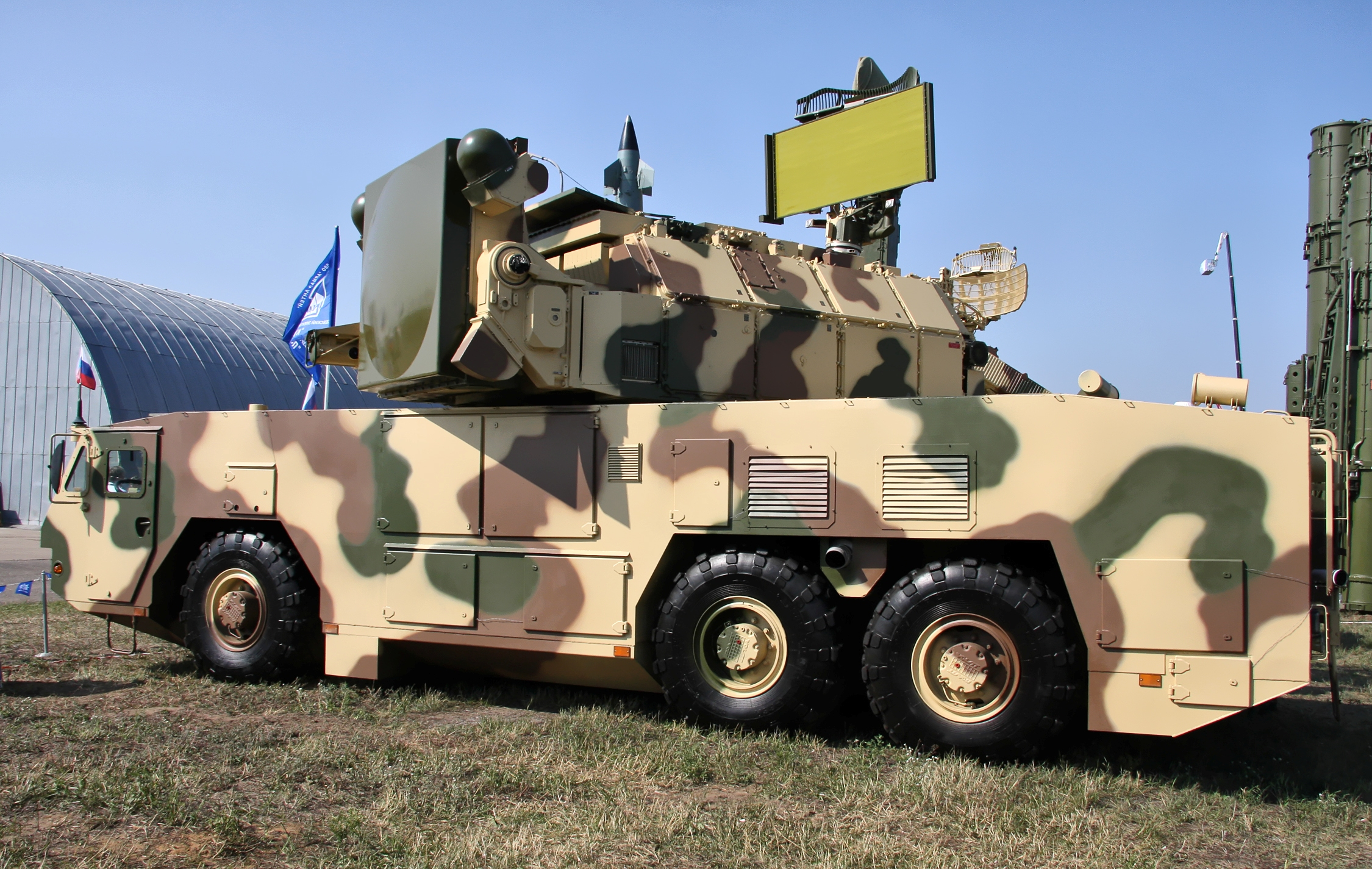 9K332 Tor-M2 SAM at MAKS-2011.